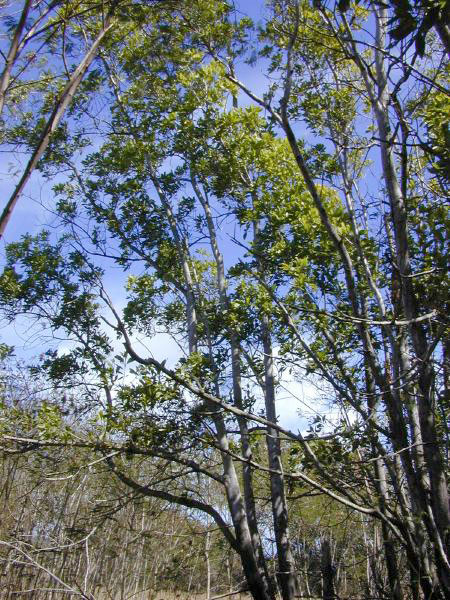 Acacia mangium1.jpg (Mangium Wattle) Downloaded from : [1] Credit : US Geological Survey